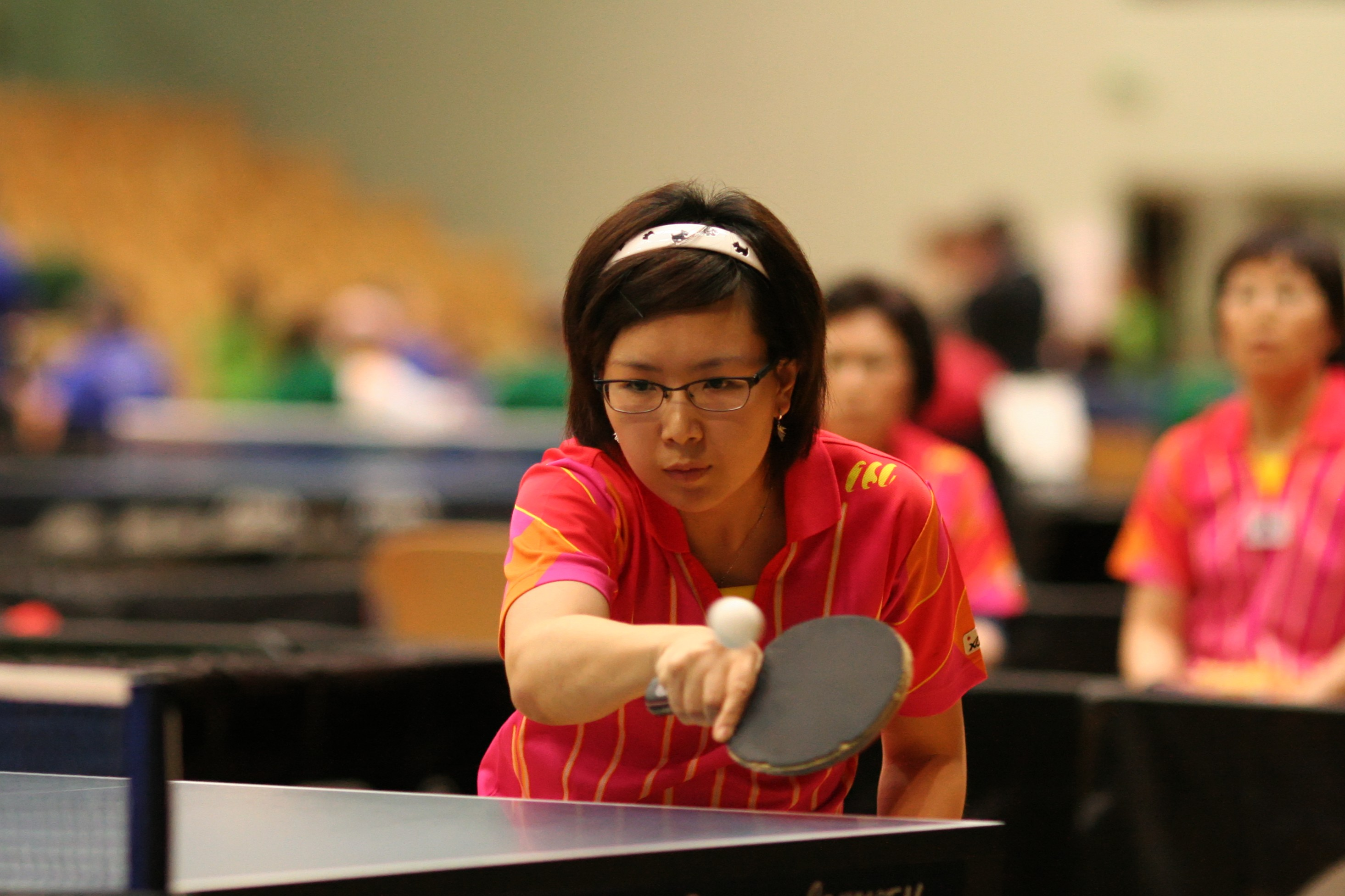 Moon Sung-hye at the 2008 Slovenia Open